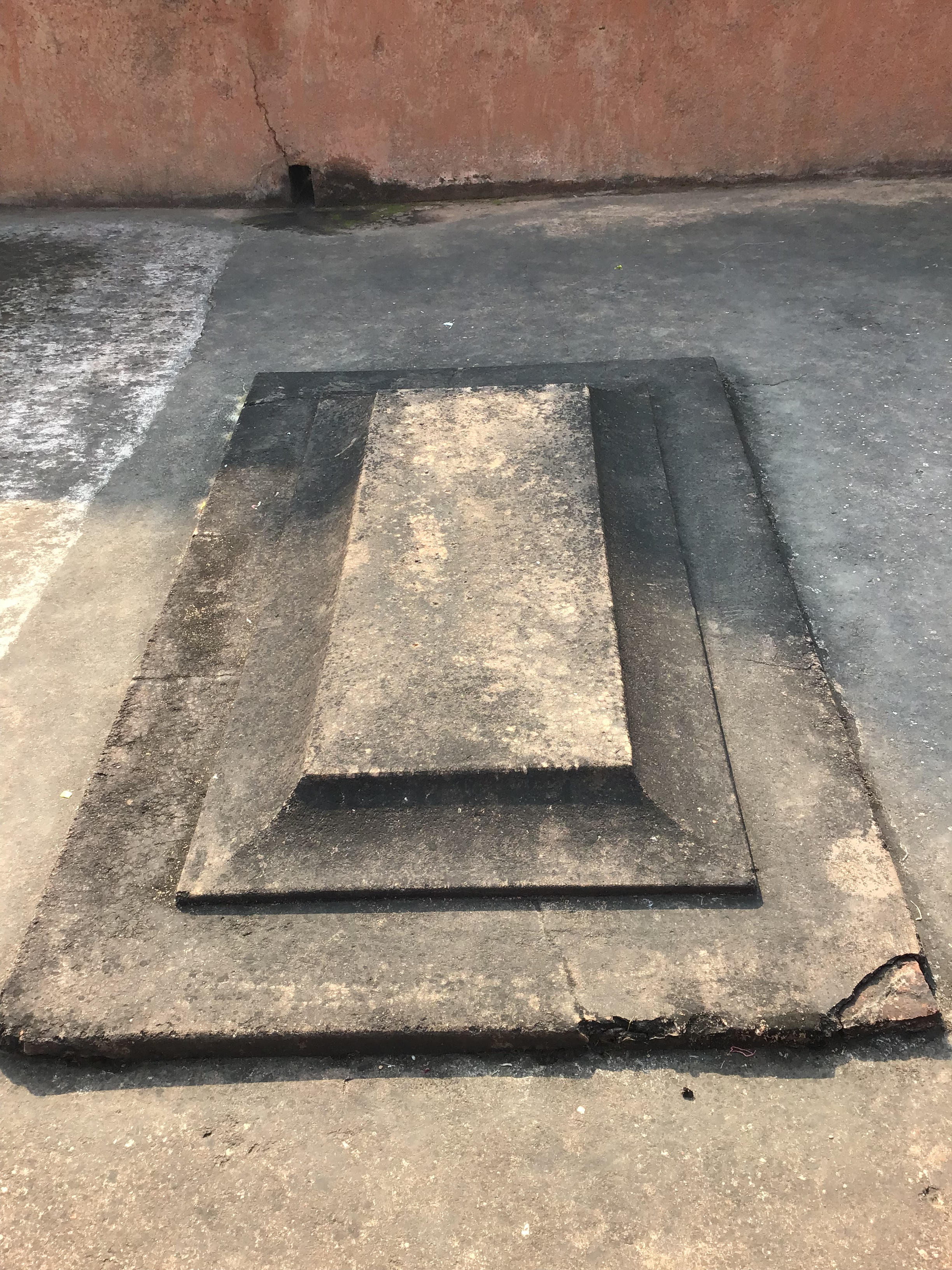 Tomb of Amina Begum (mother of Siraj ud-Daulah), Khosbag, Murshidabad, West Bengal India